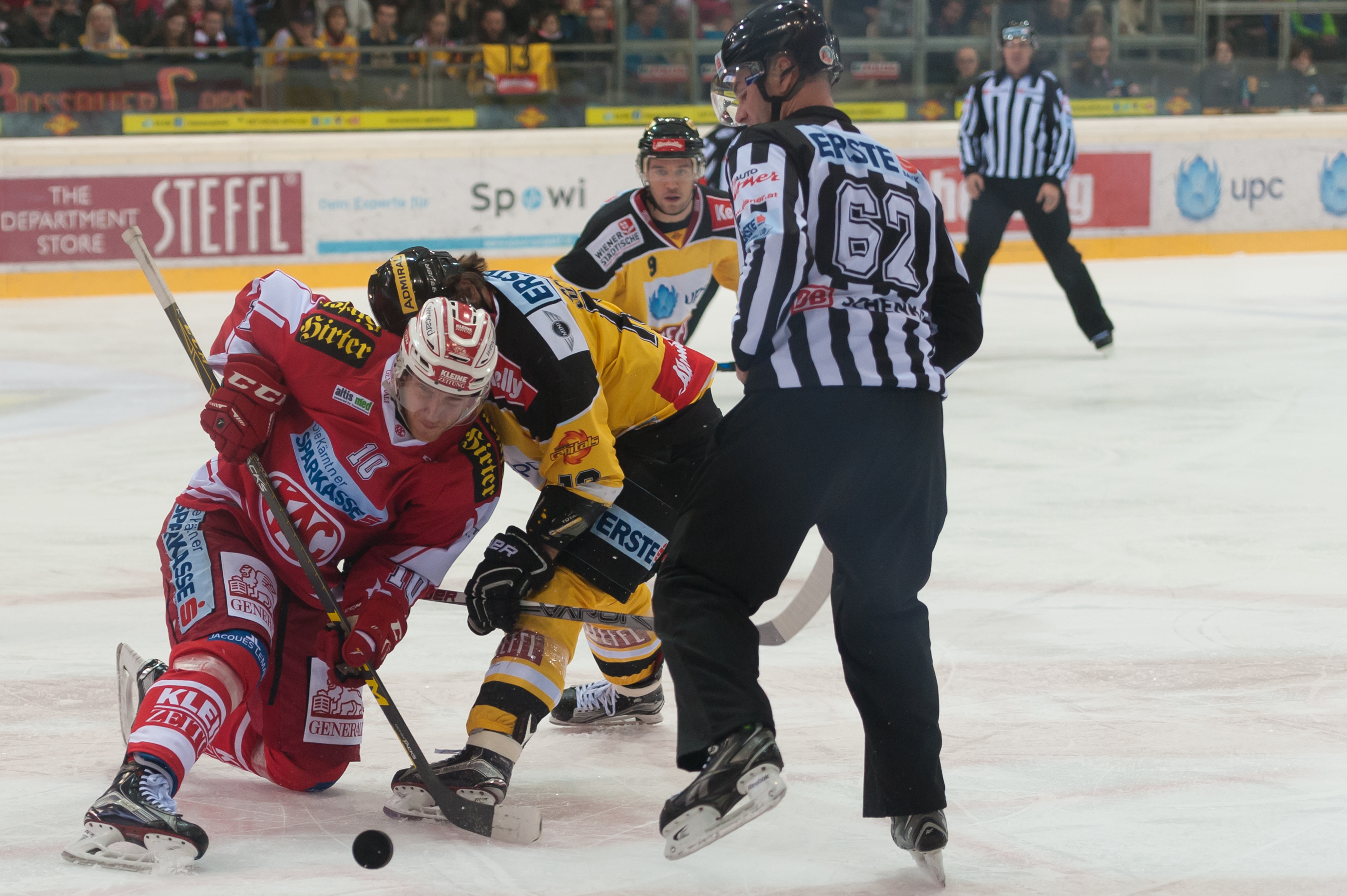 EBEL Vienna Capitals vs EC-KAC 2016-01-03